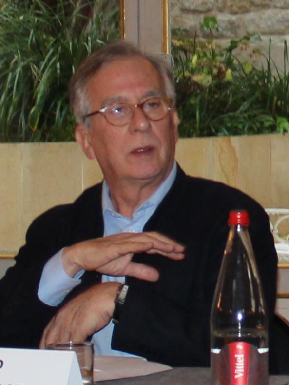 Our European steering committee gathered on the 12 and 13 December 2014 in Paris. Two round table took place on the 13 December about the themes "The external challenges of the European union: what strategy?" Debate introduced by: Elisabeth Guigou, President of the French National Assembly committee for external affairs Javier Solana, former High representative for the Common foreign and security policy The Juncker Commission: what internall priorities?" . Debate introduced by: Etienne Davignon, former Vice-President of the European Commission, President of Friends of Europe Enrico Letta, former Prime Minister of Italy